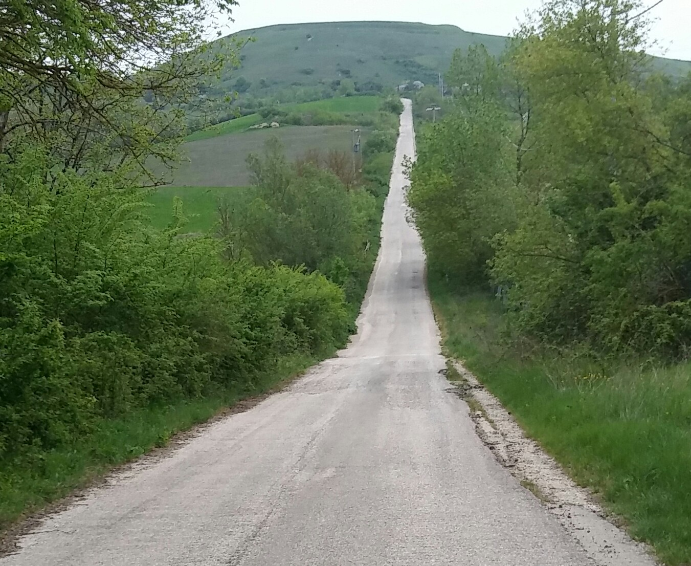 Via Traiana & Crepacore castle c/o Faeto, Southern Italy